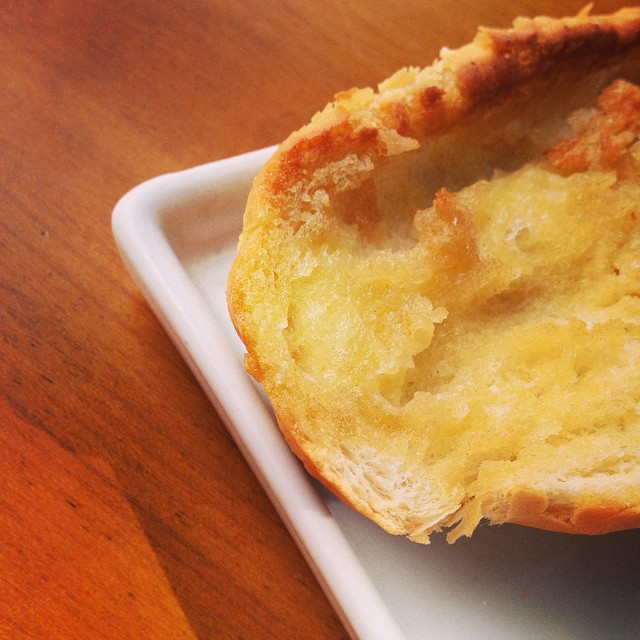 Pão na chapa (grilled bread)